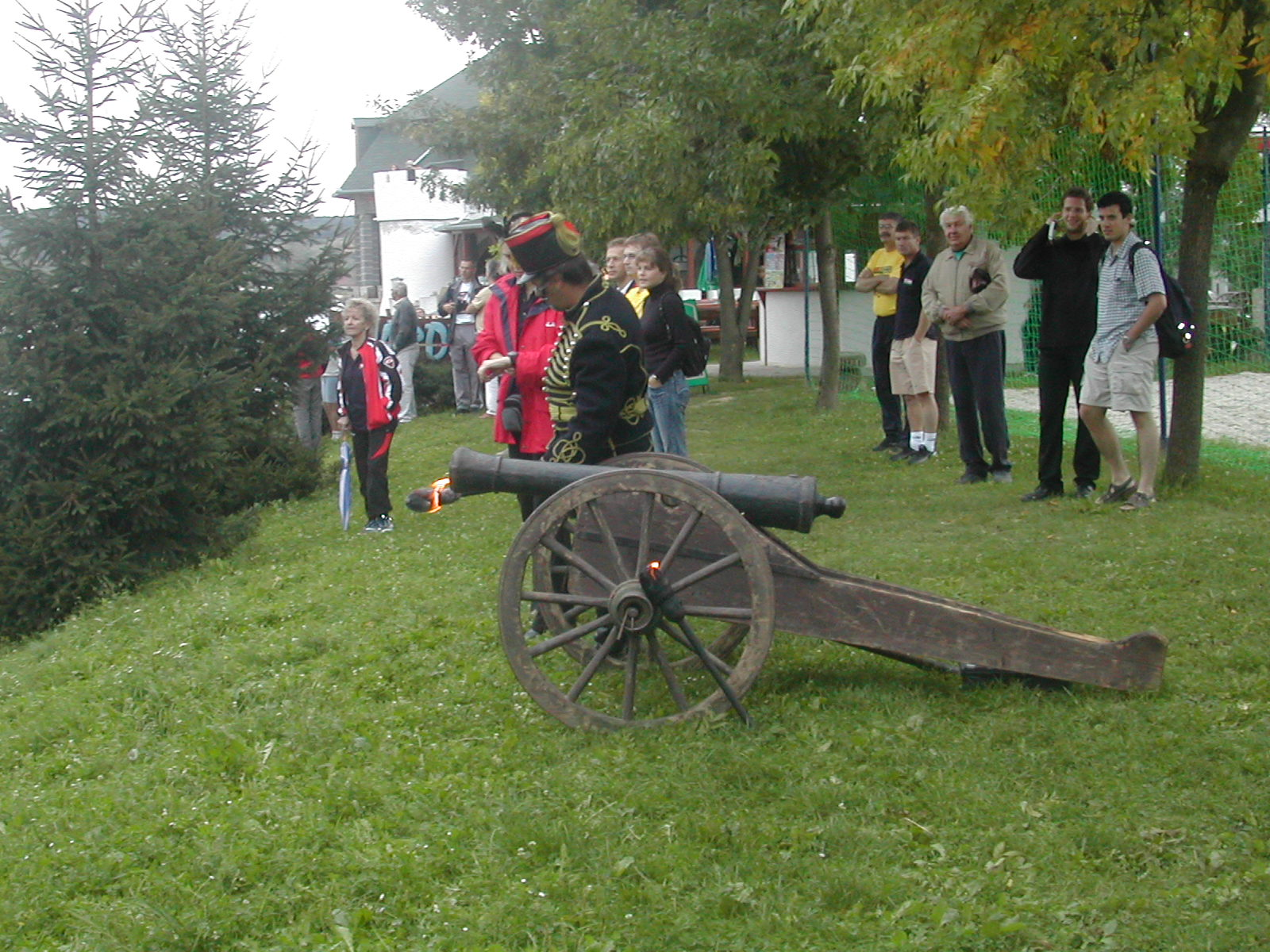 The race begins with a cannon-shot / Ágyúlövés jelzi a rajtot